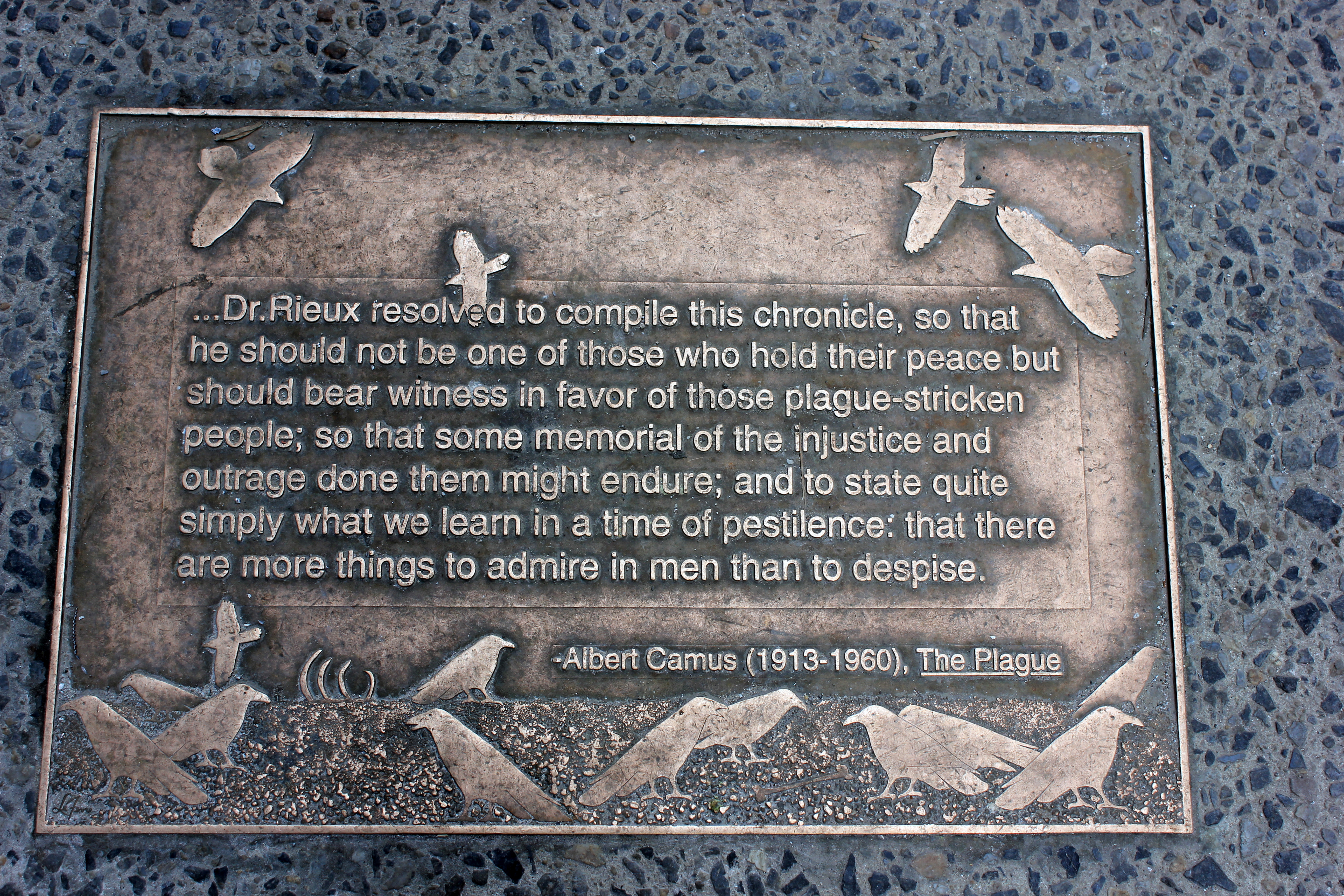 Quote from the English version of The Plague by Albert Camus in the Library Walk (New York City).